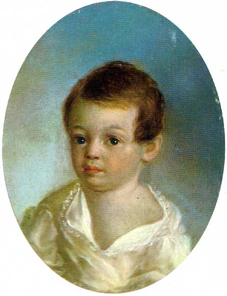 Portrait of A. S. Pushkin. Oil on metal plate. The State Pushkin Museum, Moscow.